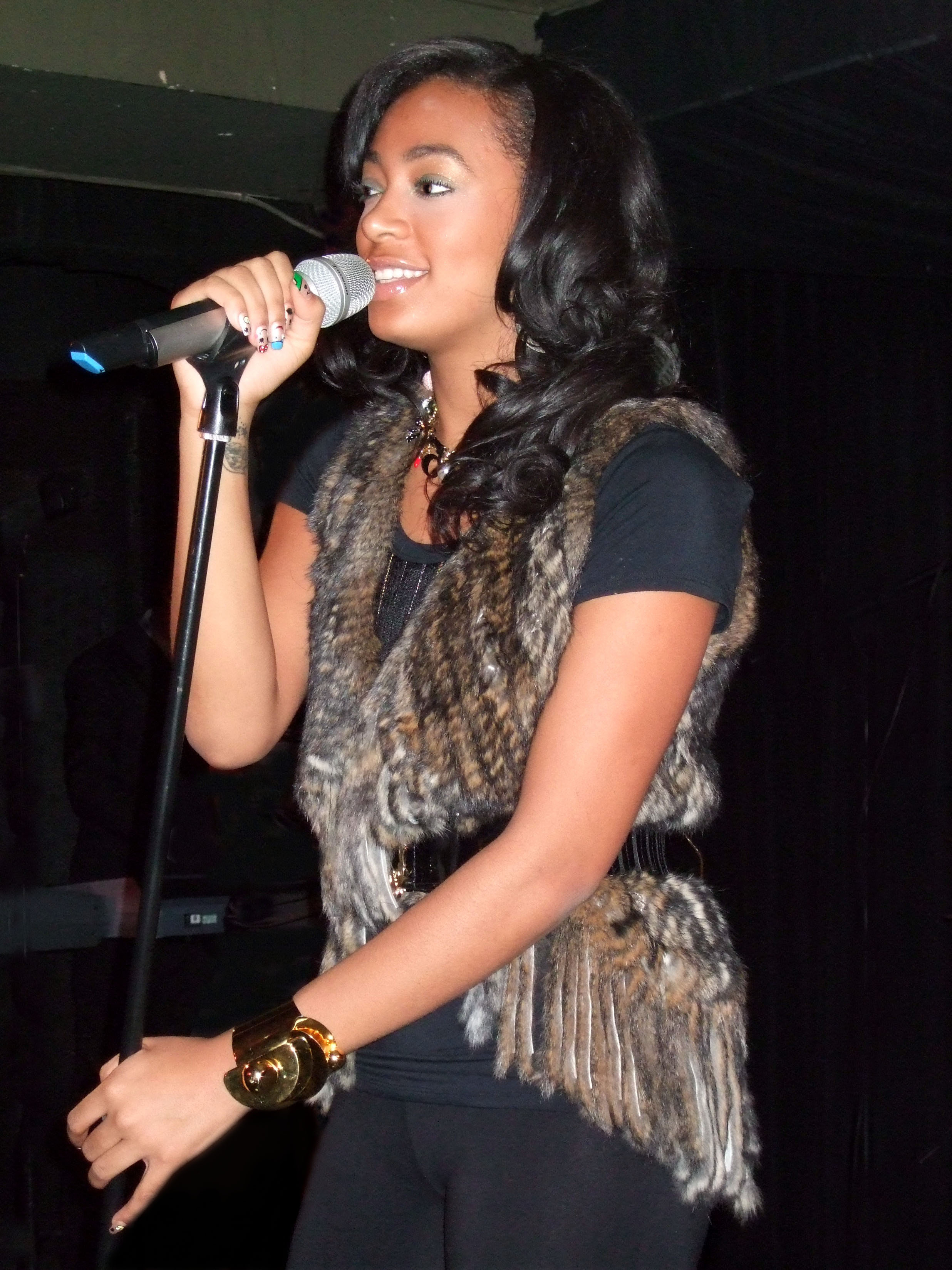 Solange Knowles @ The Ruby Lounge, Manchester, (14/11/08)